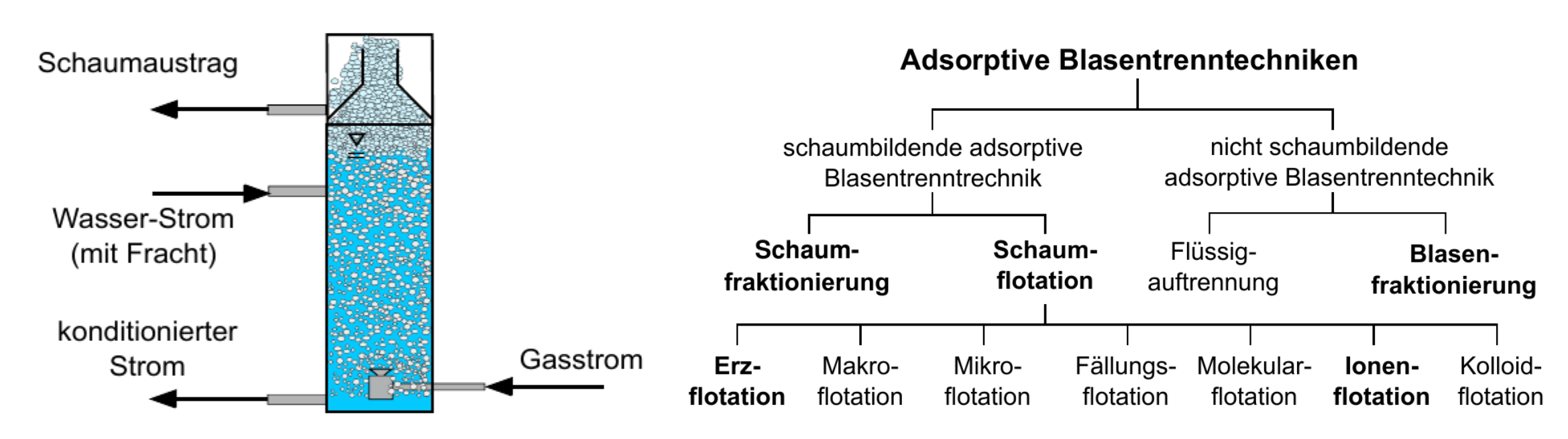 the various adsorptive separation techniques are show with several categories